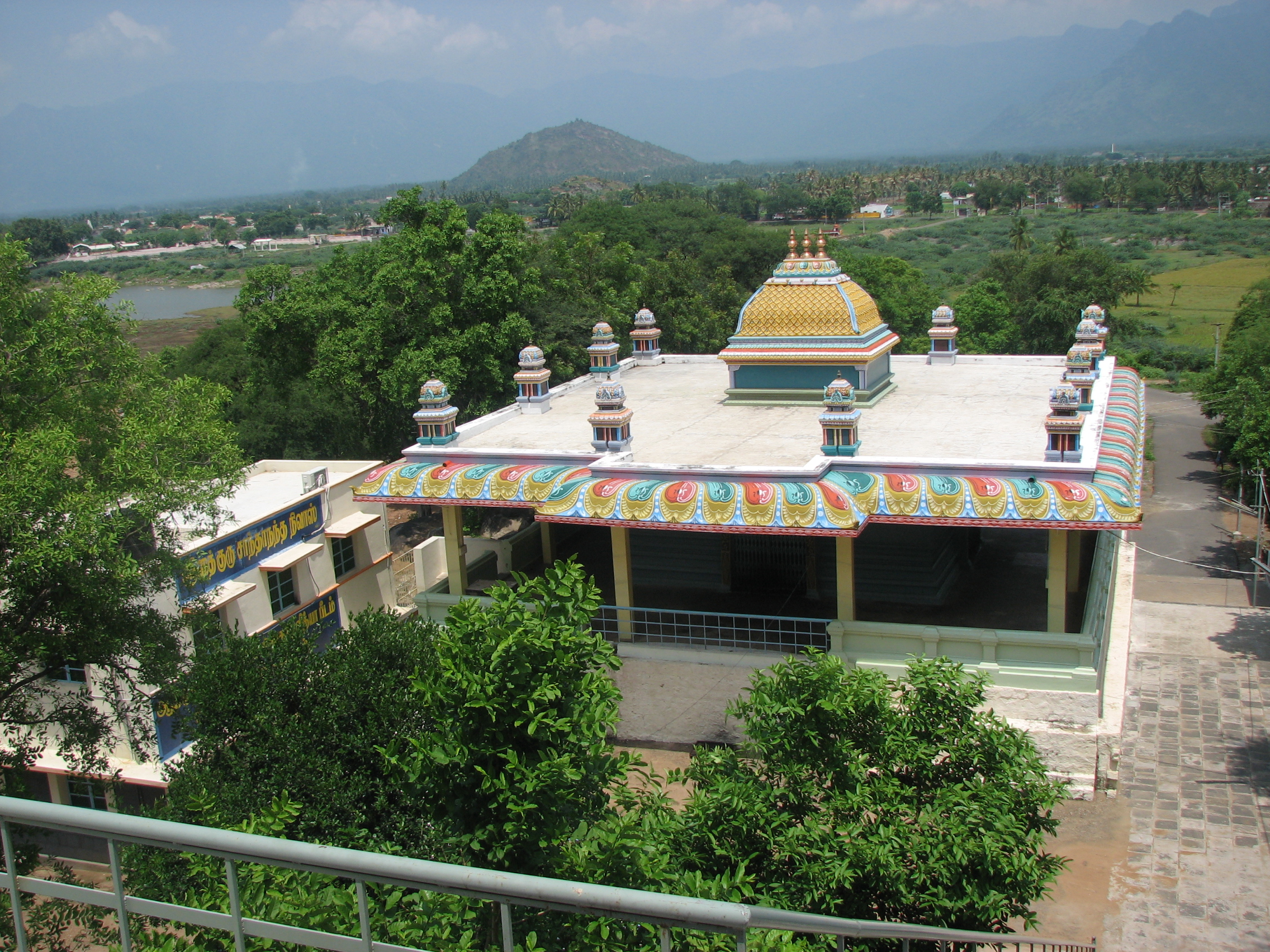 Thathagiri Murugan temple Mandapam - Sendamangalam, Namakkal India